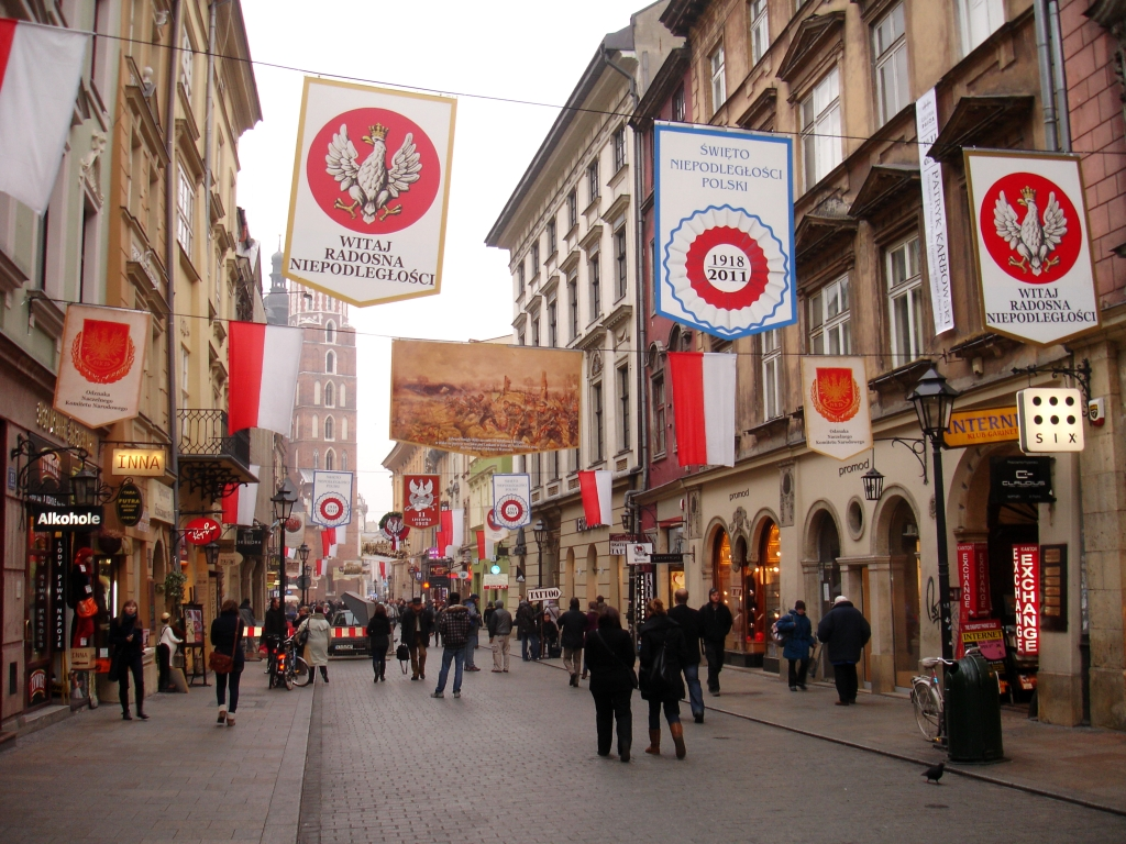 Independence Day 2011 in Poland